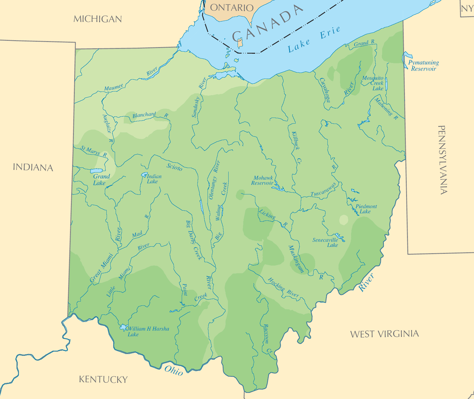 Map of Ohio (Precipitation)